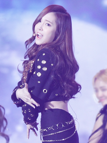 Jessica Jung at SBS Gayo Daejeon on December 29, 2013.